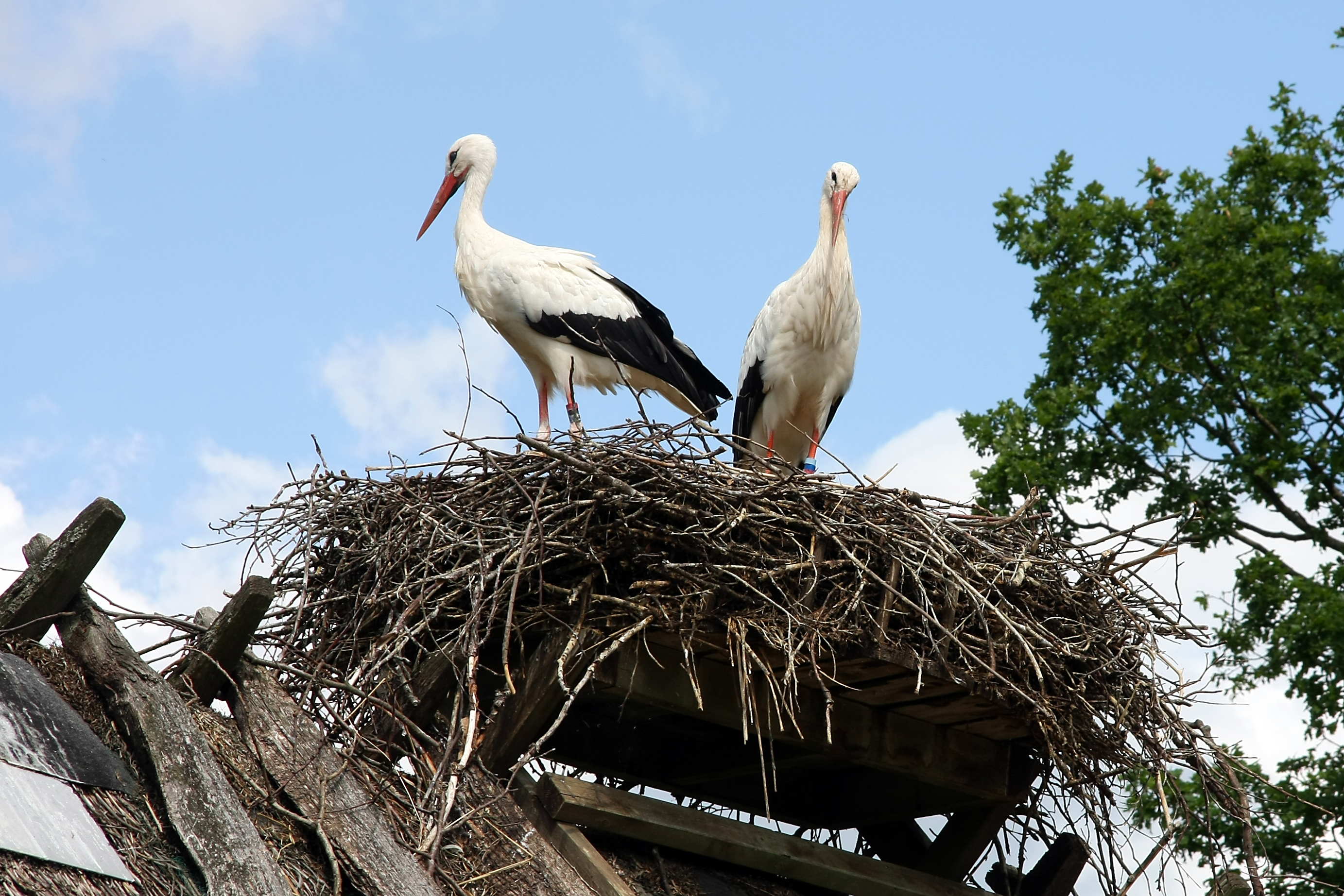 White storks at a zoo in southern Sweden, Skånes djurpark.